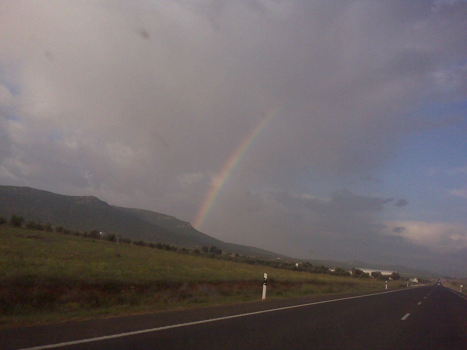 Spanish national road N-420 betwen Herencia and Puertolapice